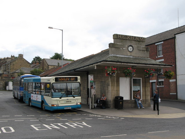 Hexham Bus Station